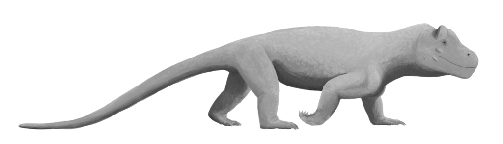 A reconstruction of the prehistoric therapsid Anteosaurus magnificus, following the proportions of Orlov's Titanophoneus reconstruction.